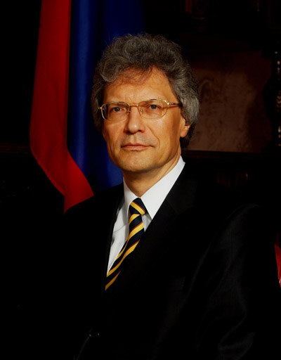 Sergey Razov